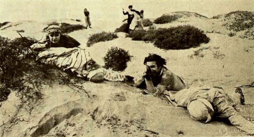 Still from the American film serial The Silent Mystery (1918) with Mae Gaston, on page 800 of the February 8, 1919 Moving Picture World.